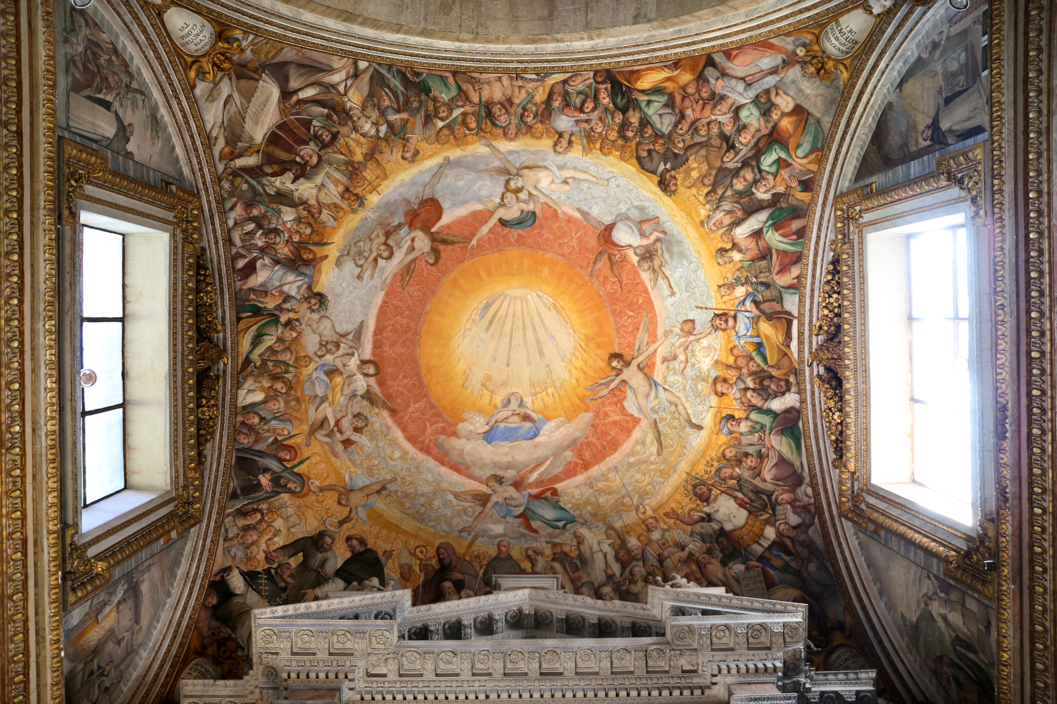 Santa Sabina (Rome) - Cappella di San Giacinto